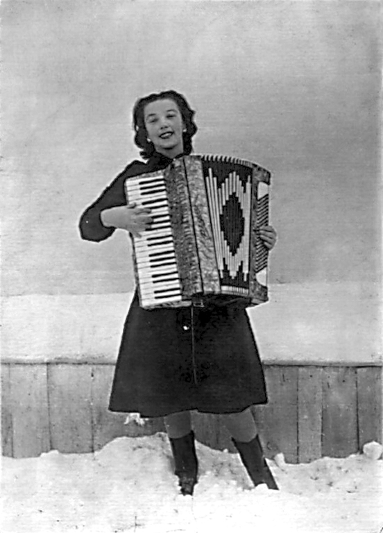 Lydia Andreyevna Ruslanova